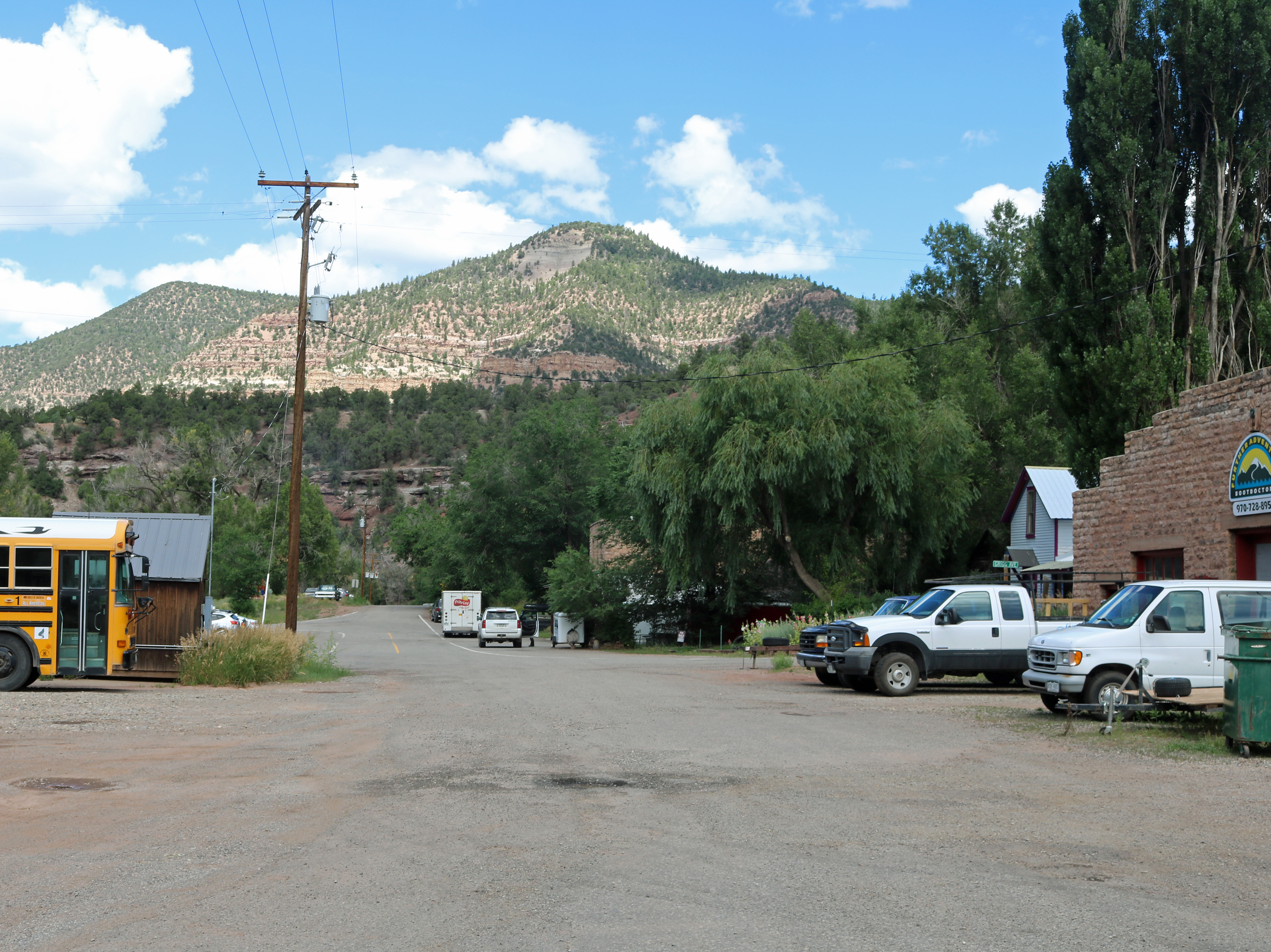 A view along Front Street in Placerville, Colorado, in San Miguel County.